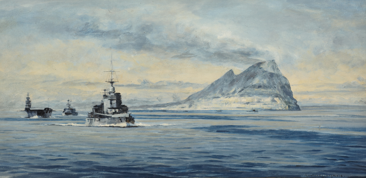 Force H off Gibraltar, 1940 Rowland Langmaid now in National Maritime Museum. Langmaid was assigned by Admiral Cunningham as official artist of the Mediterranean fleet between 1941 and 1943.